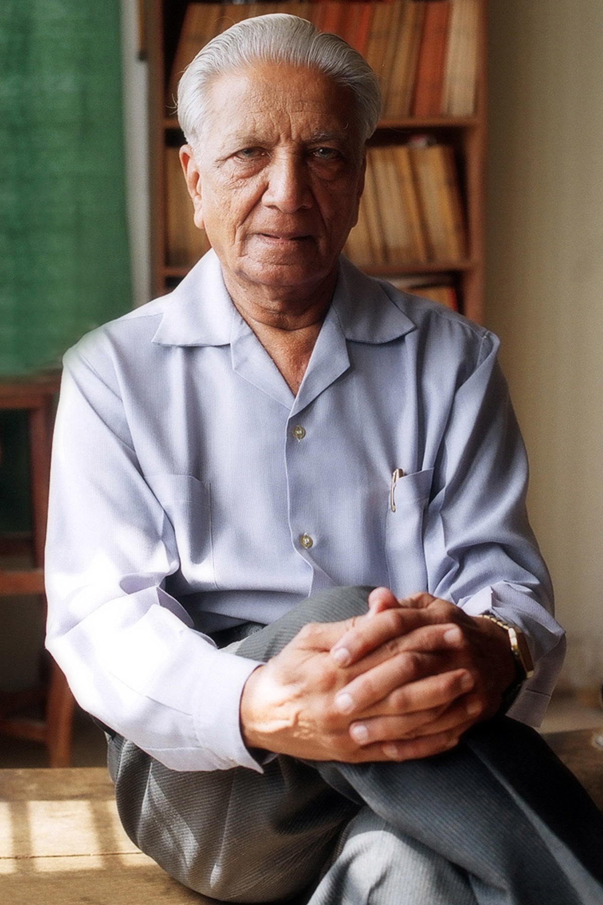 Prof. Niranjan Bhagat at his residence in Ahmedabad, 2005